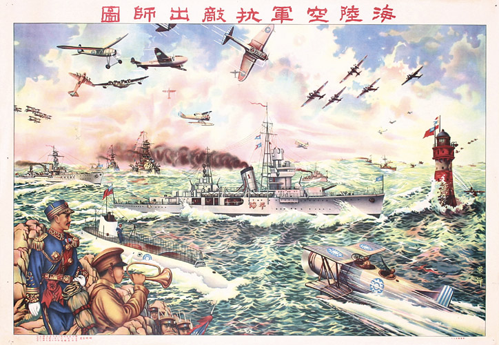 Navy Army Air Force fight the enemy poster